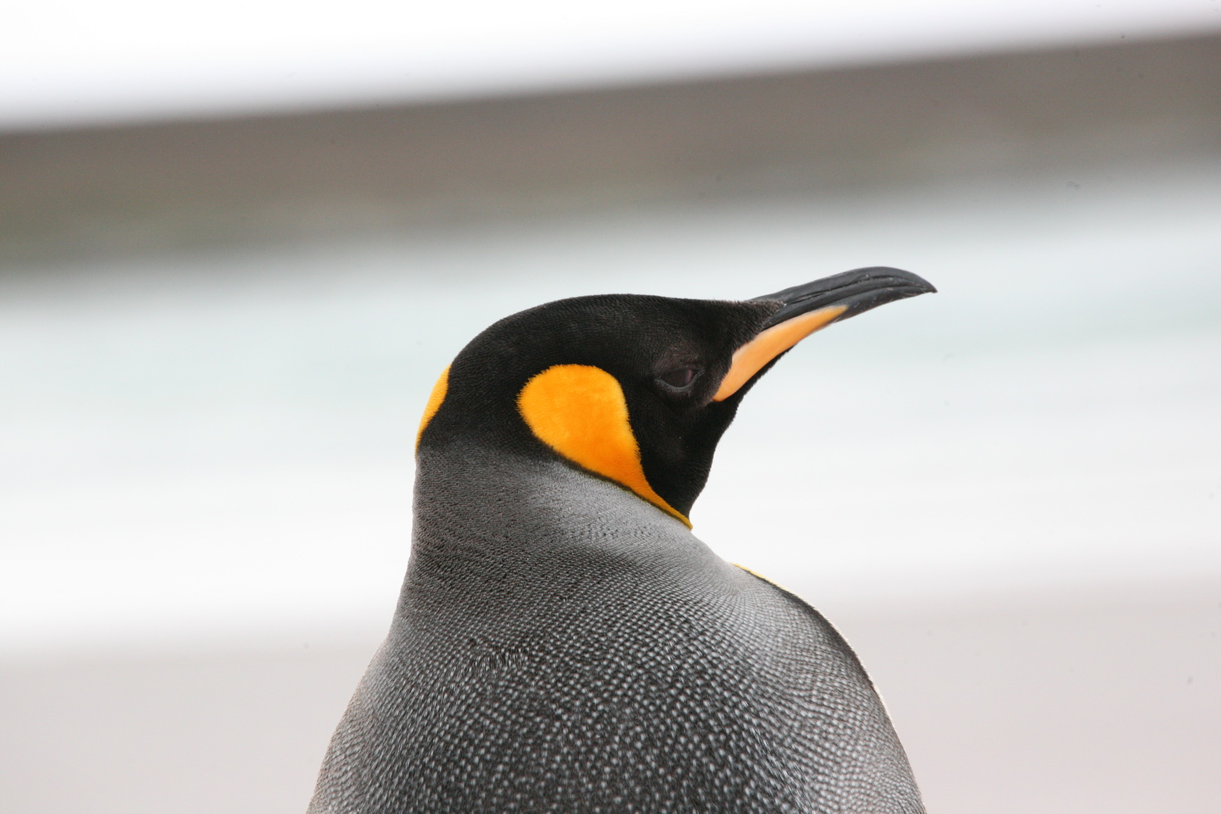 King Penguin